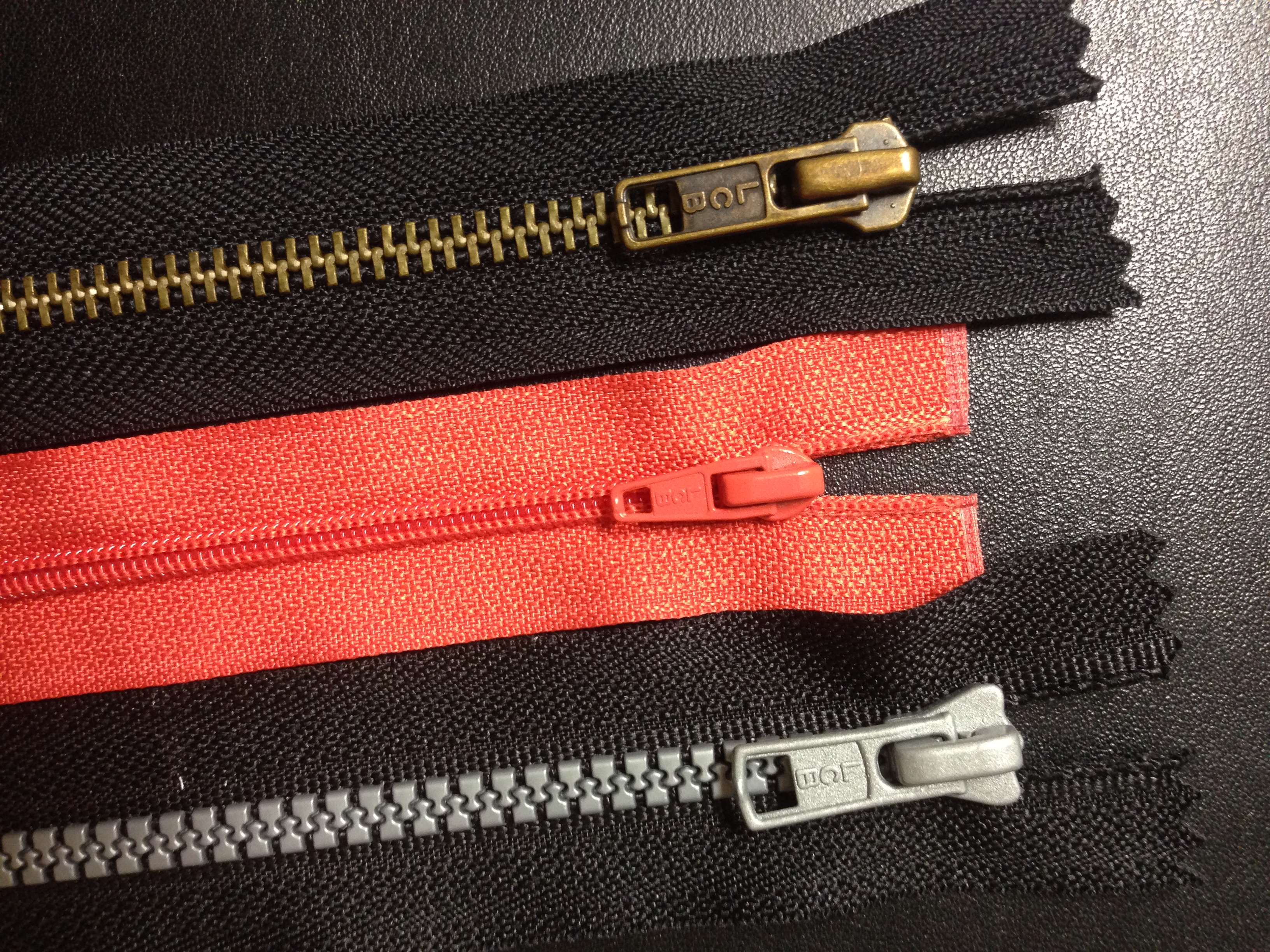 Zippers with coil, plastic or metal teeth. The initials on the pull tab (puller) usually stand for the zipper's brand name.